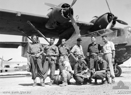 Sourced from: Copyright: The AWM record for this photo states that the copyright status is 'clear'. The photo was taken during 1945. AWM Caption: LABUAN, NORTH BORNEO. C. 1945-08-15. HOW THE WAR ENDED AT RAAF'S MOST WESTERLY BASE IN THE SOUTH WEST PACIFIC AREA. ONE OF THE MOST FAMOUS CATALINA AIRCRAFT OF NO. 113 AIR SEA RESCUE FLIGHT RAAF OPERATING IN THE PACIFIC IS CAPTAINED BY FLIGHT LIEUTENANT (FLT LT) WALLY MILLS DFC, PAPATOETOE, NZ WITH HIS "CAT" CREW. BACK ROW, LEFT TO RIGHT: FLT LT MILLS, FLYING OFFICER (FO) WAL HAWTHORNE, ARDLETHAN, NSW; FLT LT LEN POZZI, COFFS HARBOUR, NSW; WARRANT OFFICER (WO) BILL TAYLOR, ALBURY, NSW; WO REG CRILLEY, MACKAY, QLD; SERGEANT (SGT) SID MIDDLETON, TOOWOOMBA, QLD. FRONT ROW: SGT BOB BALLINGALL, COBURG, VIC; FO RON FRANCIS DFM, ADELAIDE, SA; FO COL DARLING, MAITLAND, SA.